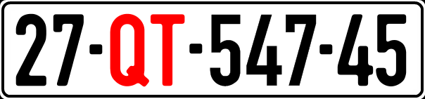 License plate from Vietnam